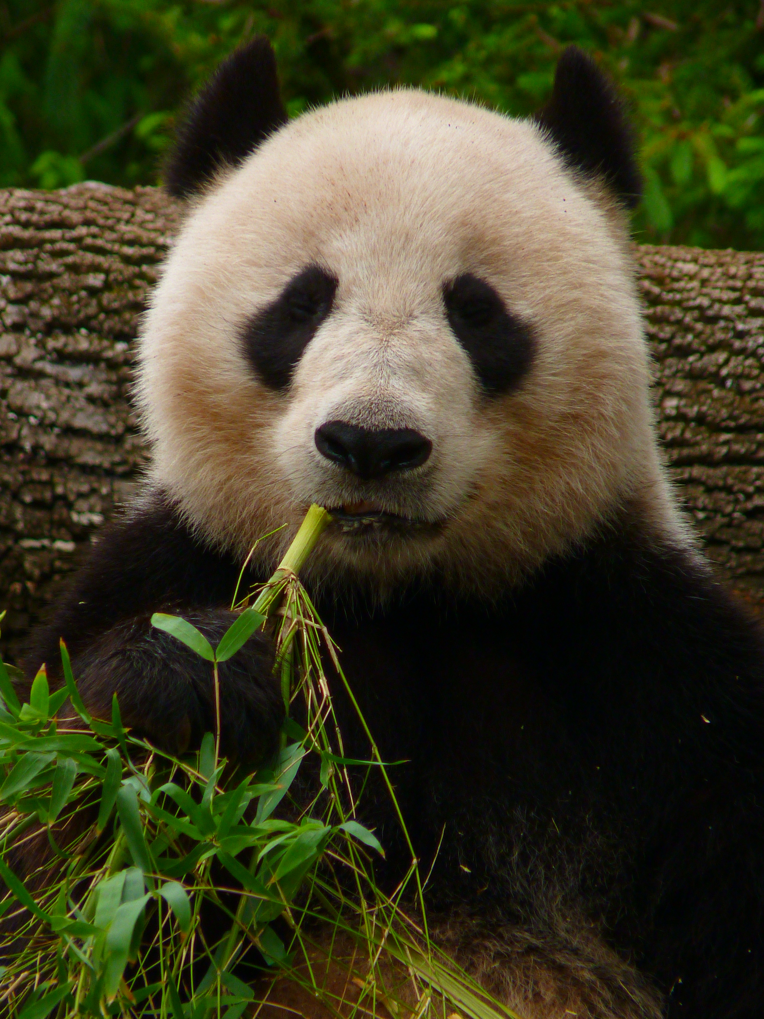 The Giant panda, Wang Wang, eating bamboo in his exhibit.